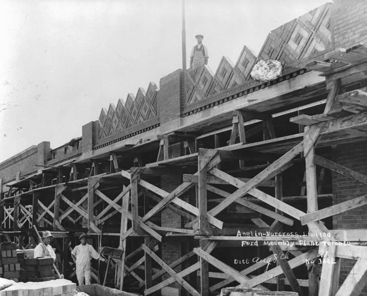 Ford assembly plant under construction in Toronto, Canada. This plant was later converted into a shopping mall in the 1960s - Shoppers World Danforth.